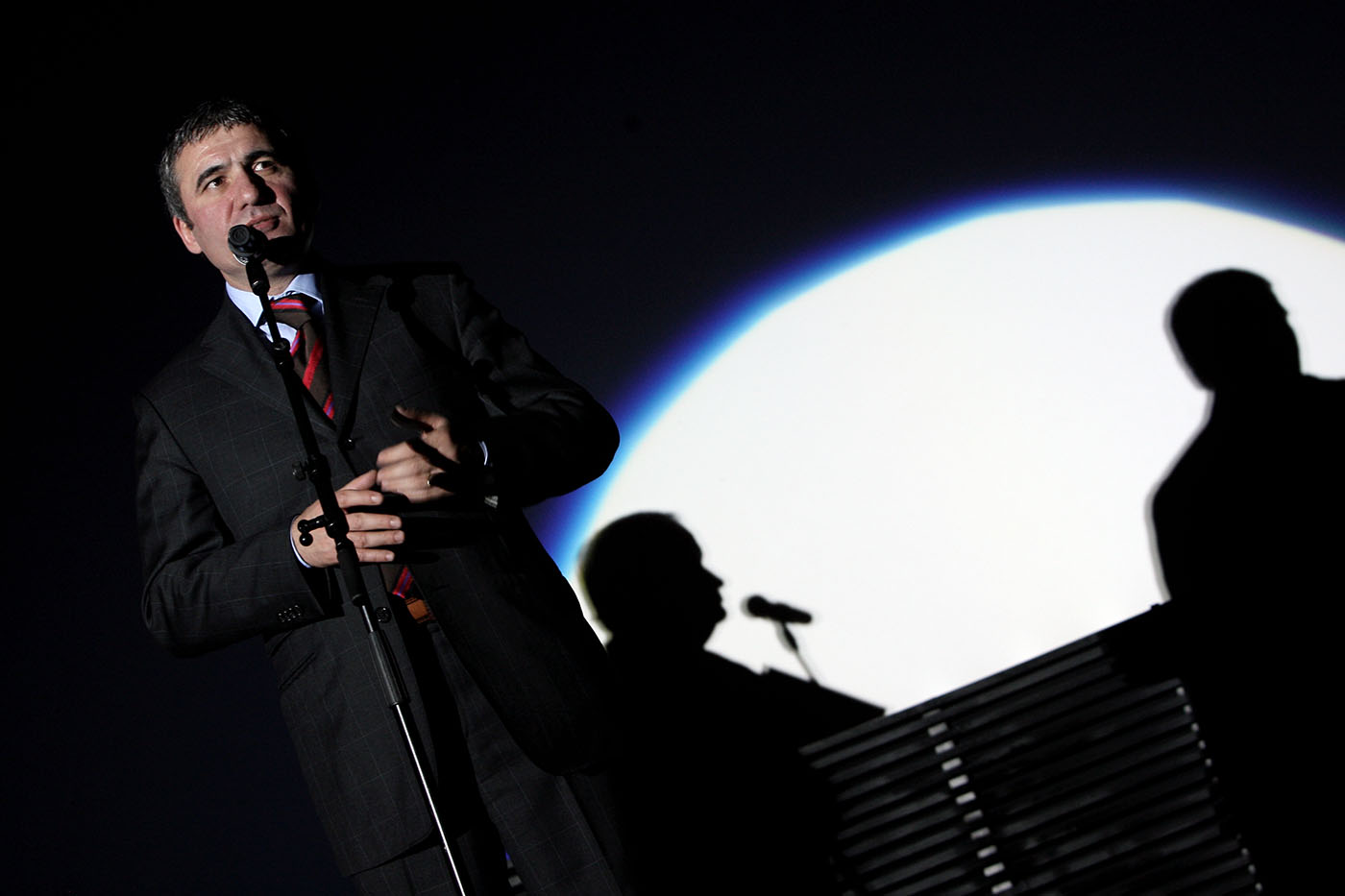 Gica Hagi